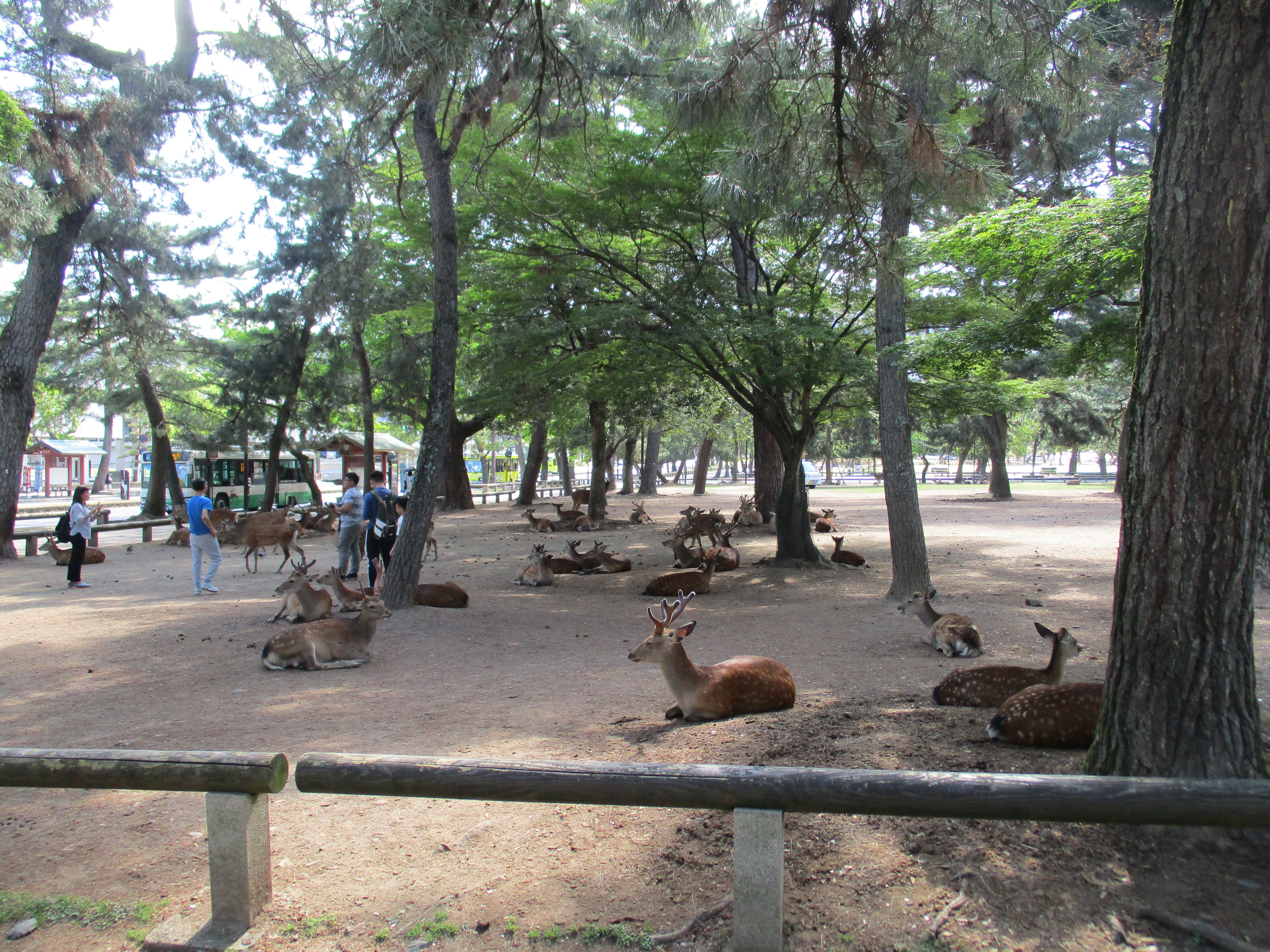 Nara Park's deers, June 2019.